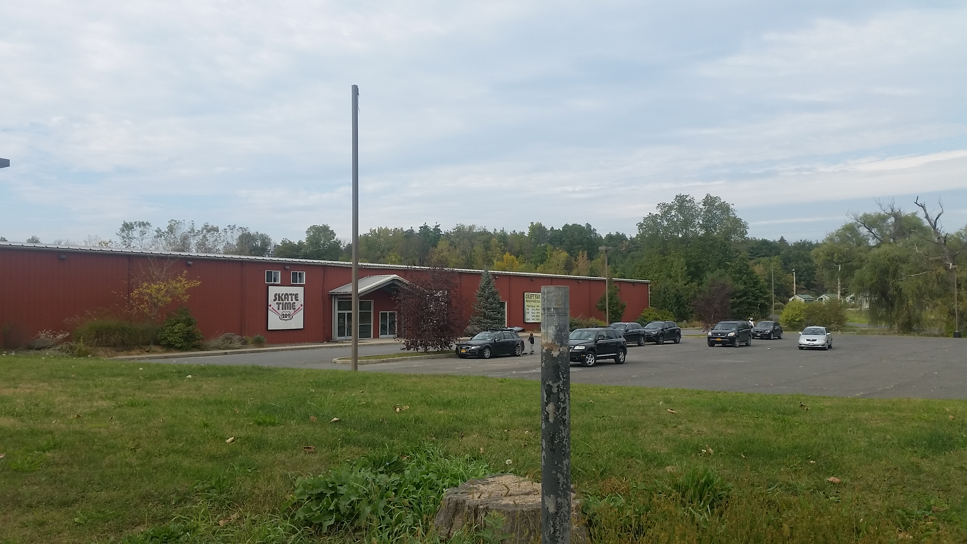 Post for NY State Historical Marker for a Colonial Tavern